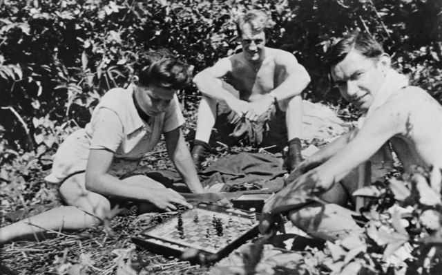 Black & white photo of two allied airmen playing chess in Chevreuse with a Frenchwoman whose family hid them for two weeks after they were shot down. Left to right: Colette Kalmanson, Squadron Leader (Sqn Ldr) Philip J Lamason DFC, RNZAF and Flying Officer (FO) Ken Chapman RAF. Item held by the Australian War Memorial.